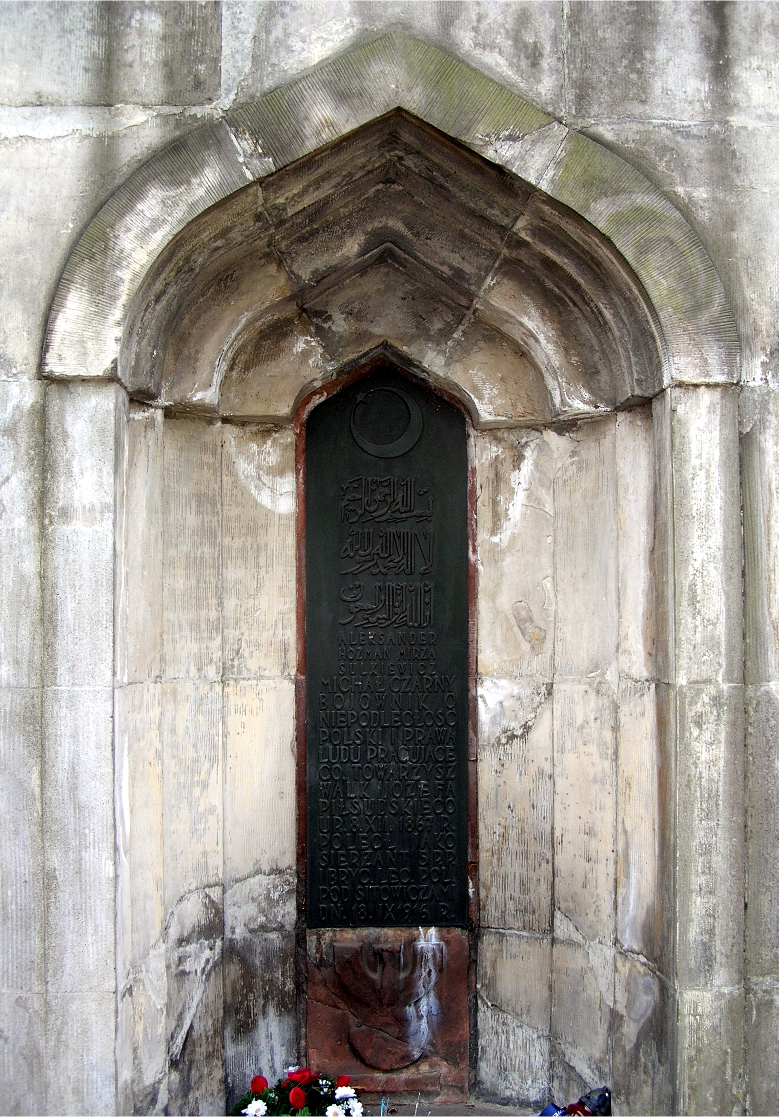 Tomb of Aleksander Sulkiewicz